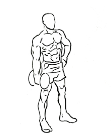 an exercise of abs